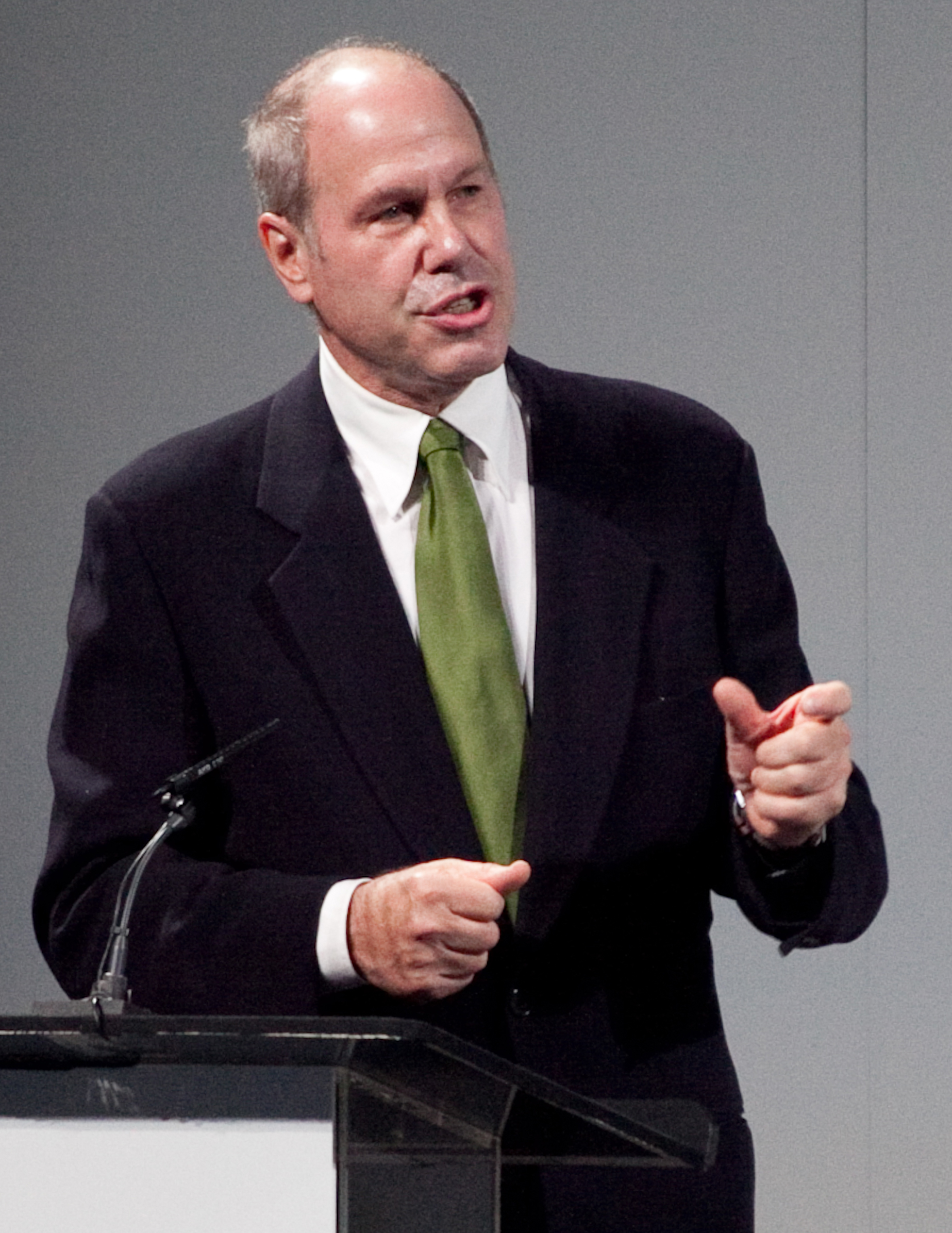 Michael Eisner speaking at The UP Experience 2010 in October 2010.